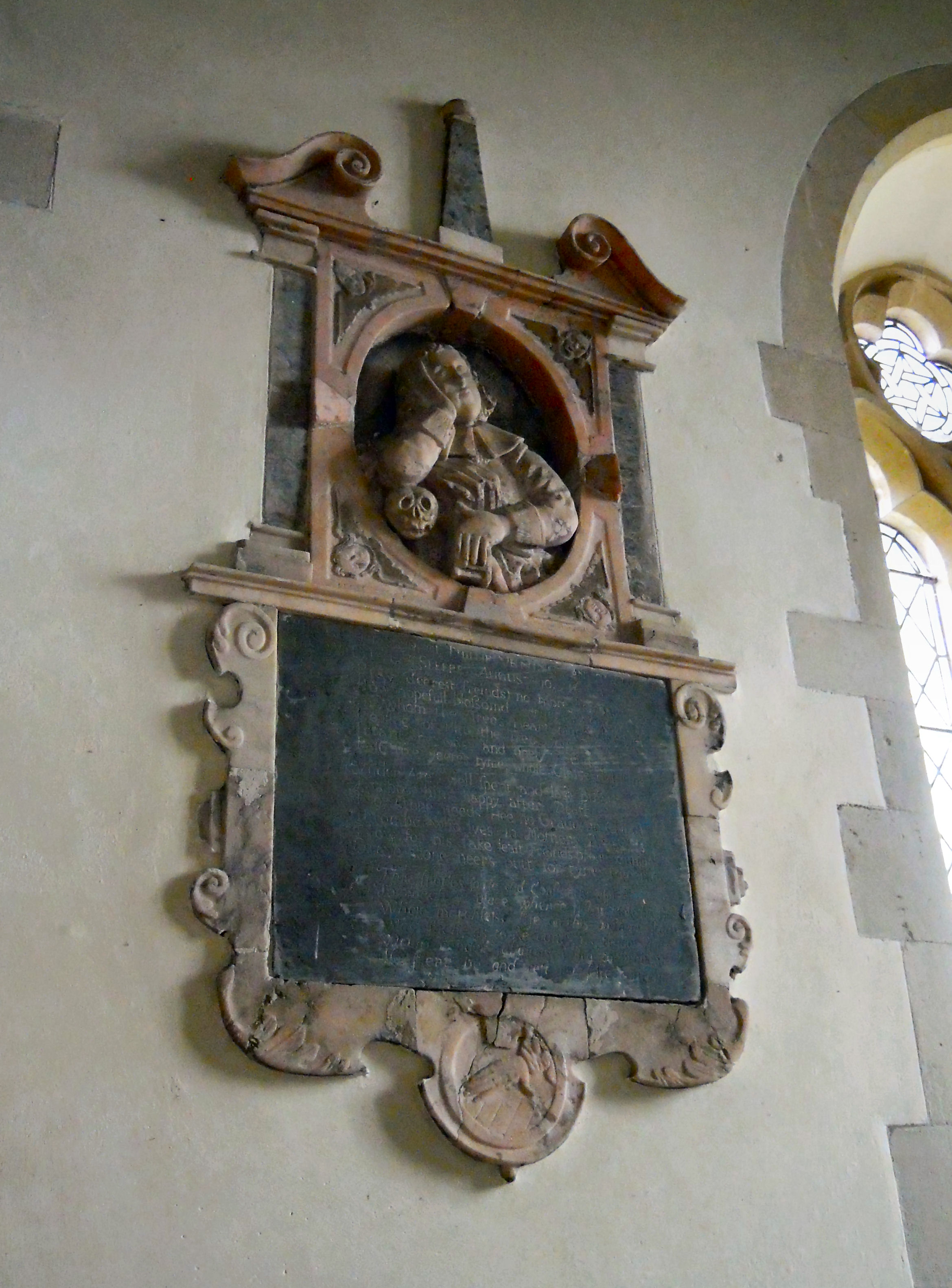 Demi-figure memorial to Philip Vening, son of Phillip and Elizabeth Vening, who died in 1658 aged six and which is of coloured marble with inscriptions in black slate. He is shown leaning his head on his right hand, the right elbow being supported by a skull.